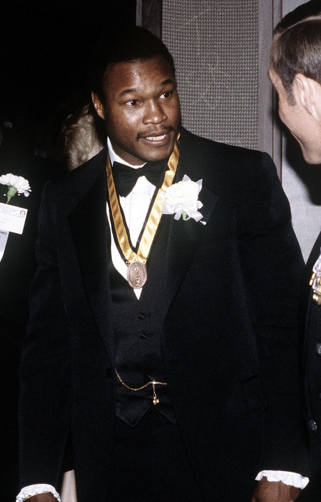 The Heavyweight Champion Larry Holmes, prior to the awards ceremony honoring the 10 Outstanding Young Men of the Year. Holmes is an award recipient. Location: TULSA (excerpt from the original text)